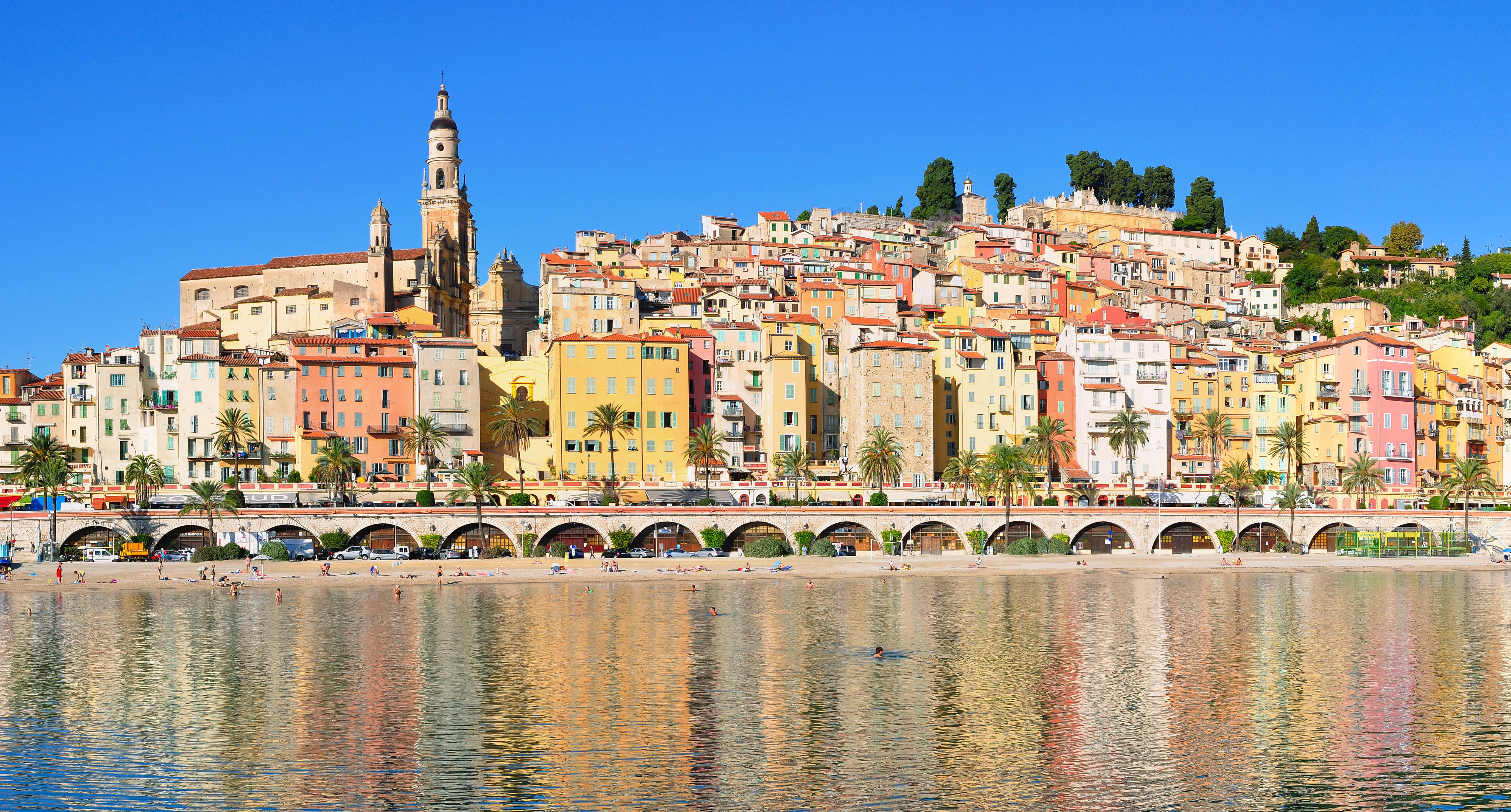 Panoramic view of coastal border of the city of Menton (Alpes-Maritimes, Provence-Alpes-Côte d’Azur, France), located not far from Monaco (12 km) along the Franco-Italian border and a popular touristic centre on the French Riviera.